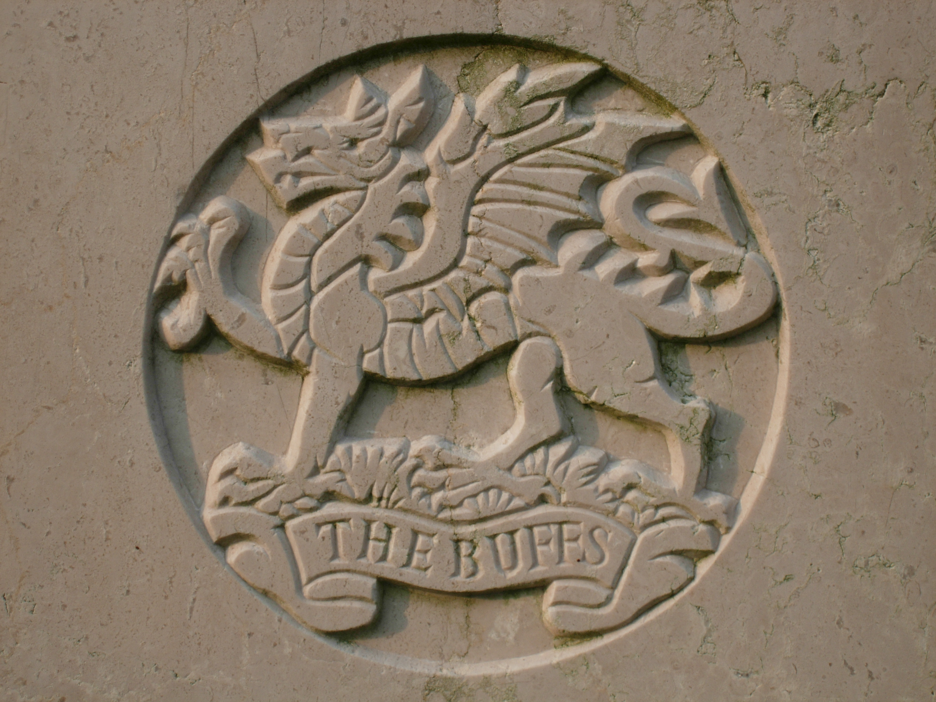 Coat of Arms of The Buffs as inscribed on the grave of Private P.M. Godden of the Buffs (died 1947), in Stanley Military Cemetery, Hong Kong